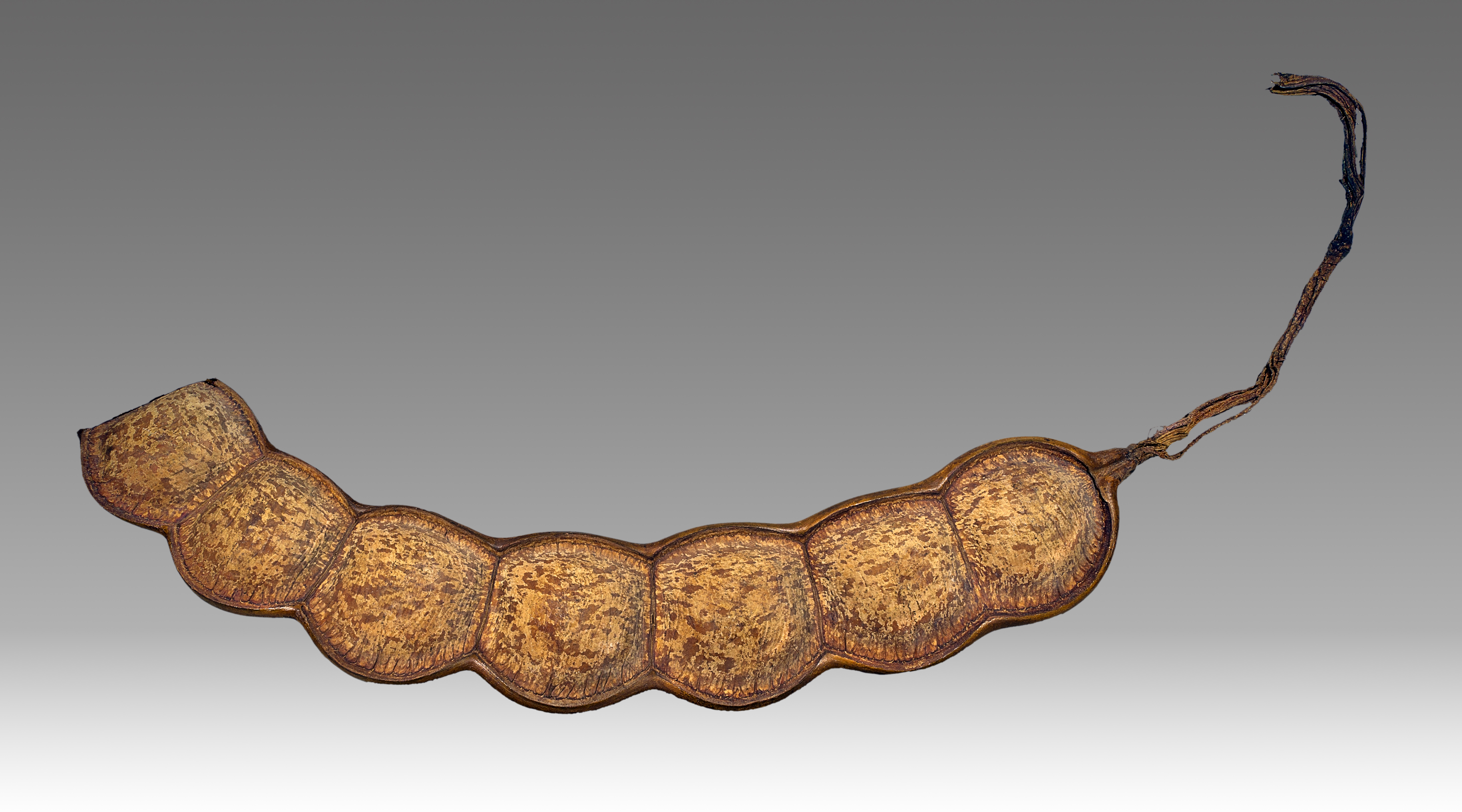 Entada phaseoloides - Ripe fruit - Old collection of de Benjamin Balansa (1825-1891) Size : 90 cm